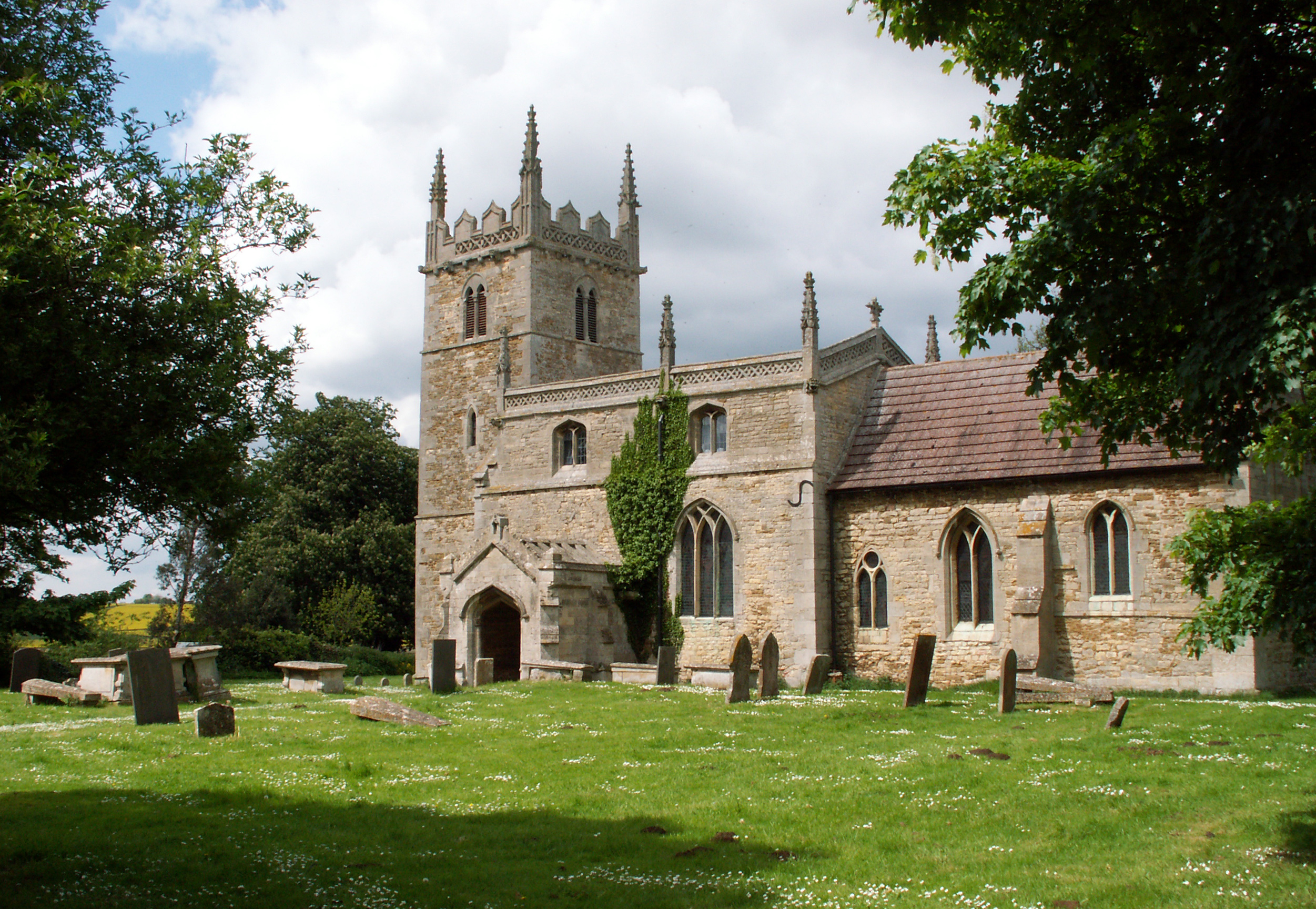 Honington Church of St Wilfrid and churchyard, Lincolnshire, England, from the south-east.